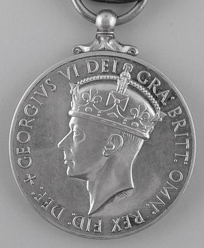 Awarded late 1940s to 1952